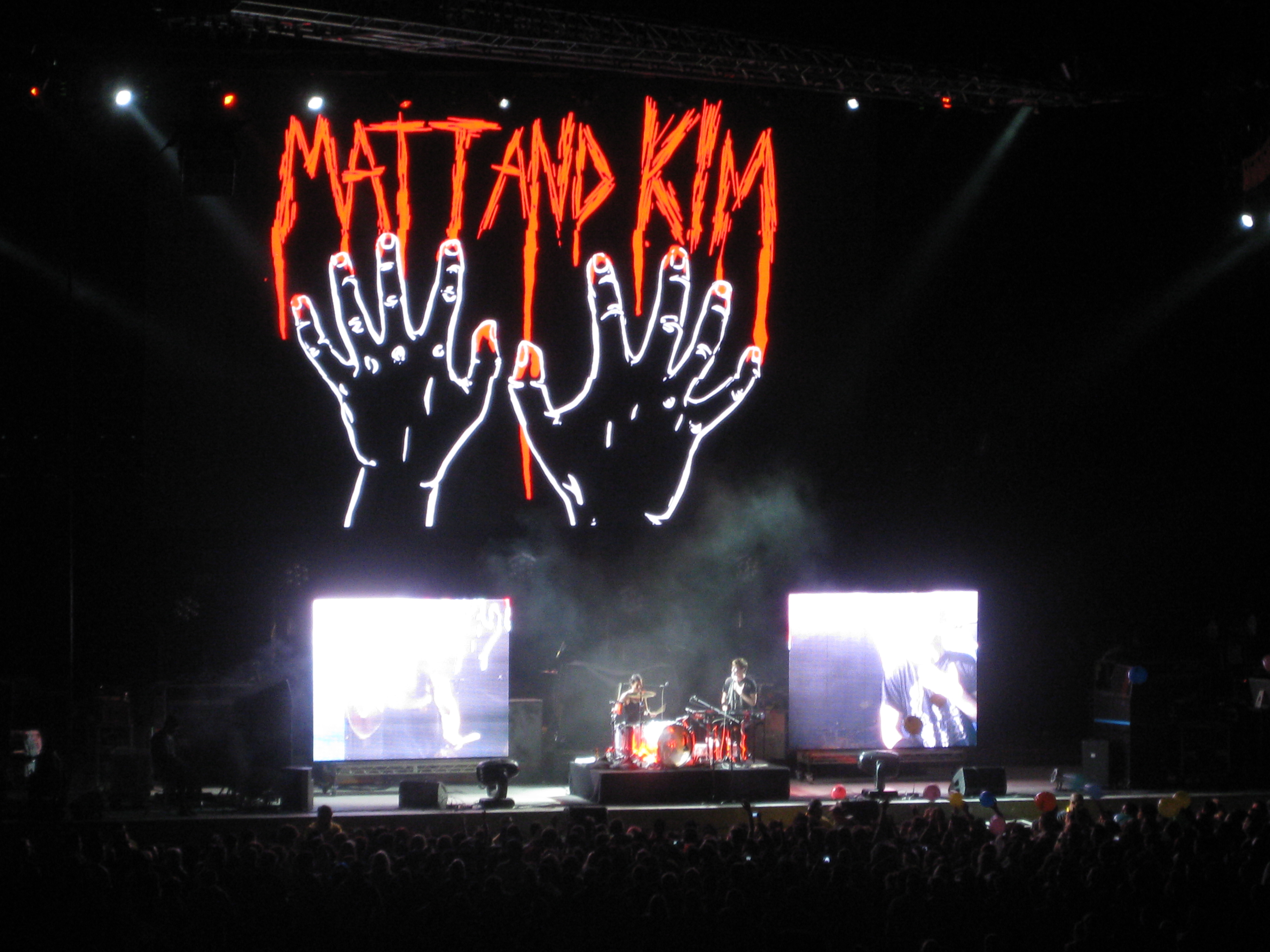 Matt & Kim performing October 6, 2011 at the Cricket Wireless Cricket Wireless Amphitheatre in Chula Vista, California. Singer/drummer Kim Schifino (left) and singer/keyboardist Matt Johnson (right).